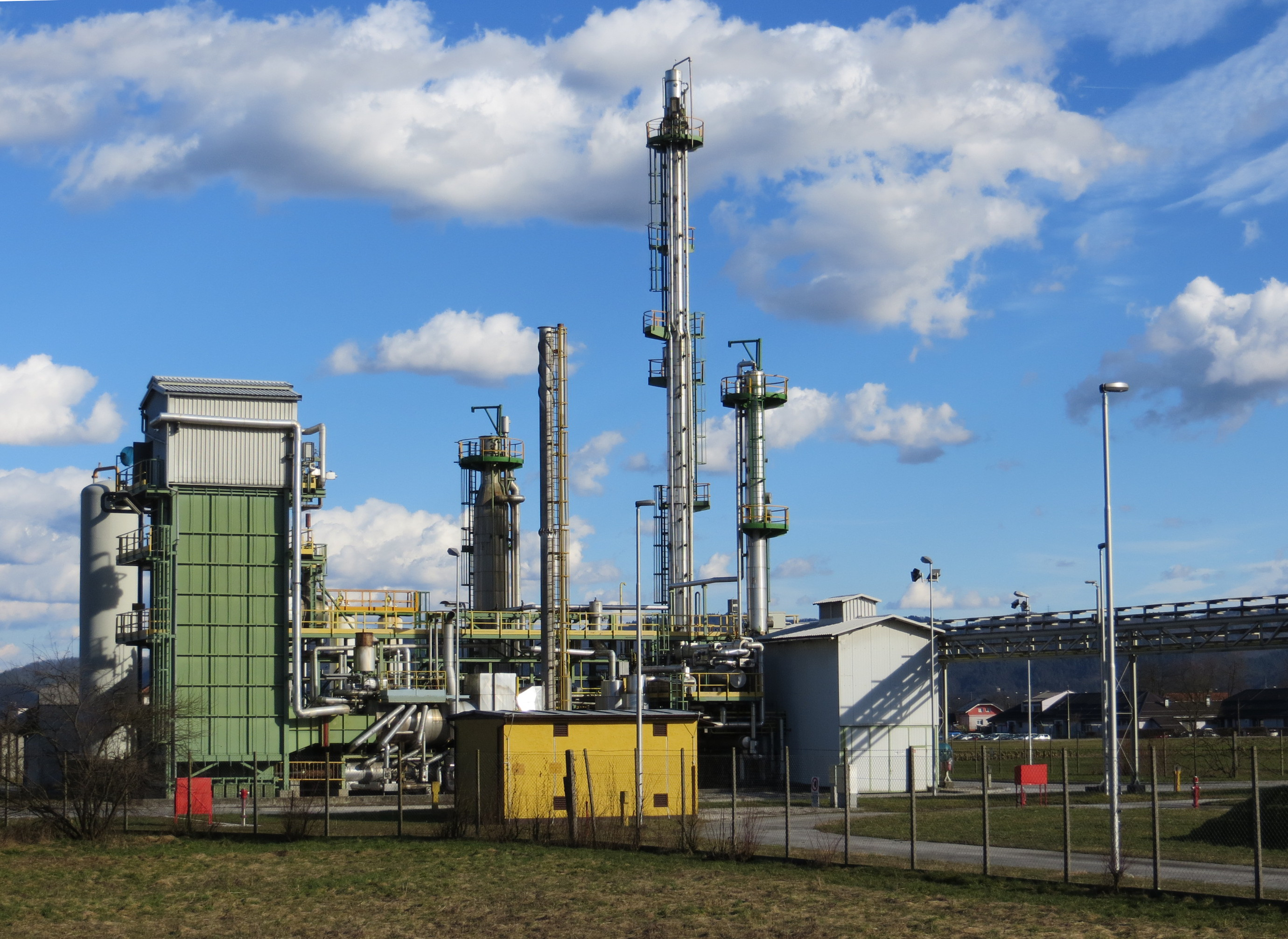 Hydrogen gasification plant for the Belinka Perkemija chemical company in Soteska, Municipality of Ljubljana, Slovenia